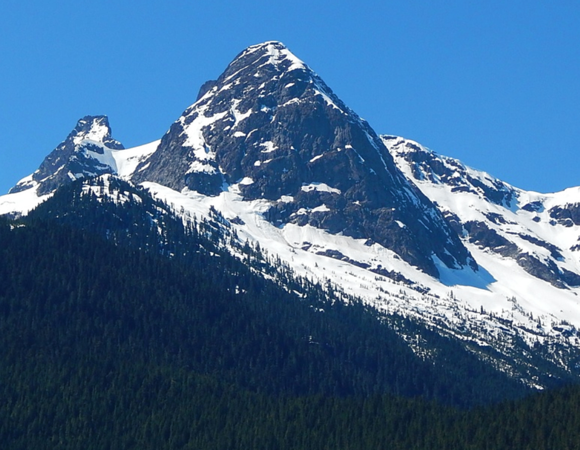 Pyramid Peak, North Cascades National Park. 22 May 2018